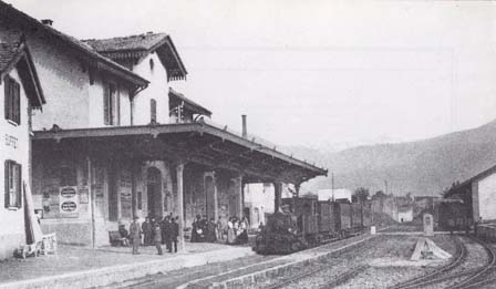 Ozegna railway station